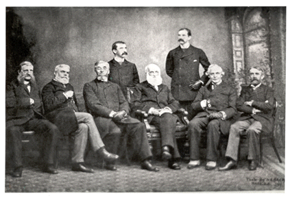 Executive officers of the American Historical Association at the time of the Association's incorporation by Congress, photographed during their annual meeting on December 30, 1889 in Washington Seated (L to R) are William Poole, Justin Winsor, Charles Kendall Adams (President), George Bancroft, John Jay (Died 1829?), and Andrew Dickson White, Standing (L to R) are Herbert B. Adams and C. W. Bowen. This photo appeared in the February 1890 issue of the Magazine of American History. The Photographer was from M.B. Brady Studio.